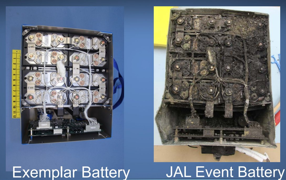 National Transportation Safety Board (NTSB) Boeing 787 Dreamliner fire 2013 factual report. Left: Correct, original battery. Right: Damaged battery Japan Airlines 787, Jan. 7, 2013